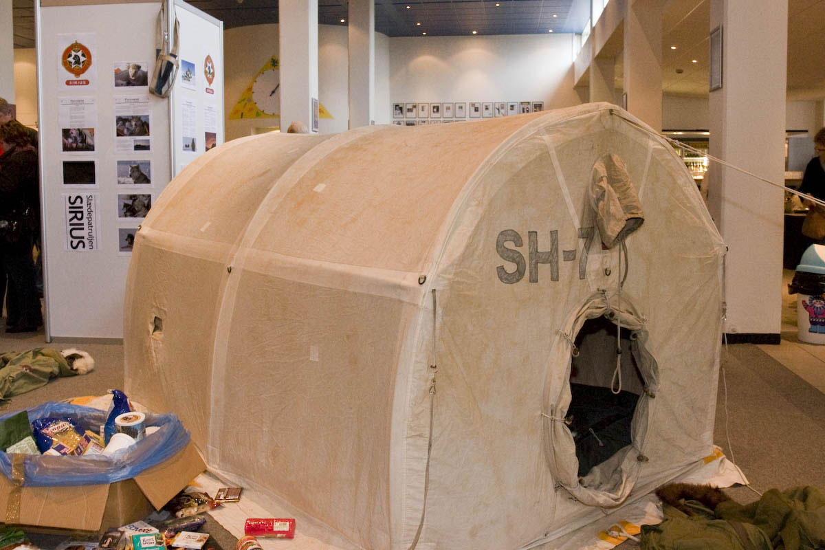 Sirius tent, shown at exhibition in Aalborg, Denmark